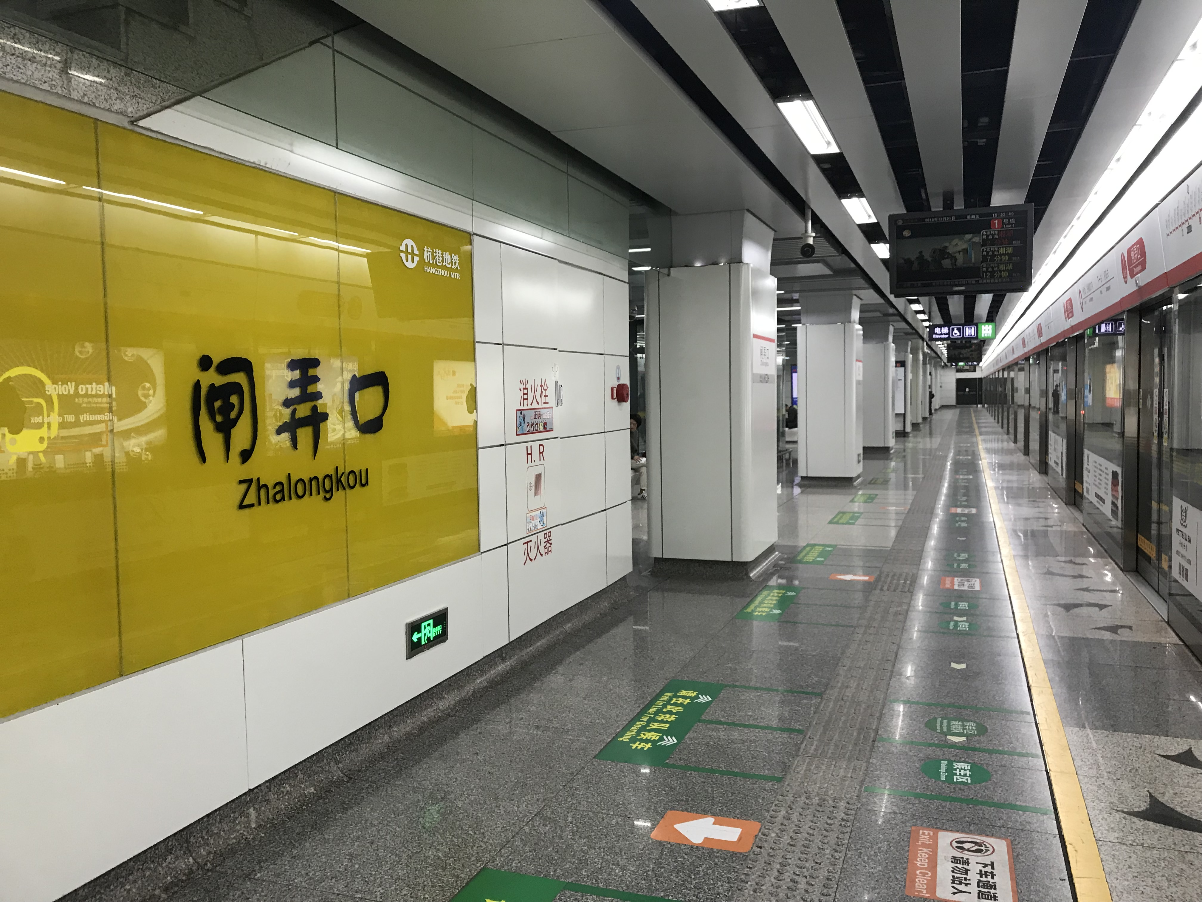 201812 Nameboard of Zhalongkou Station